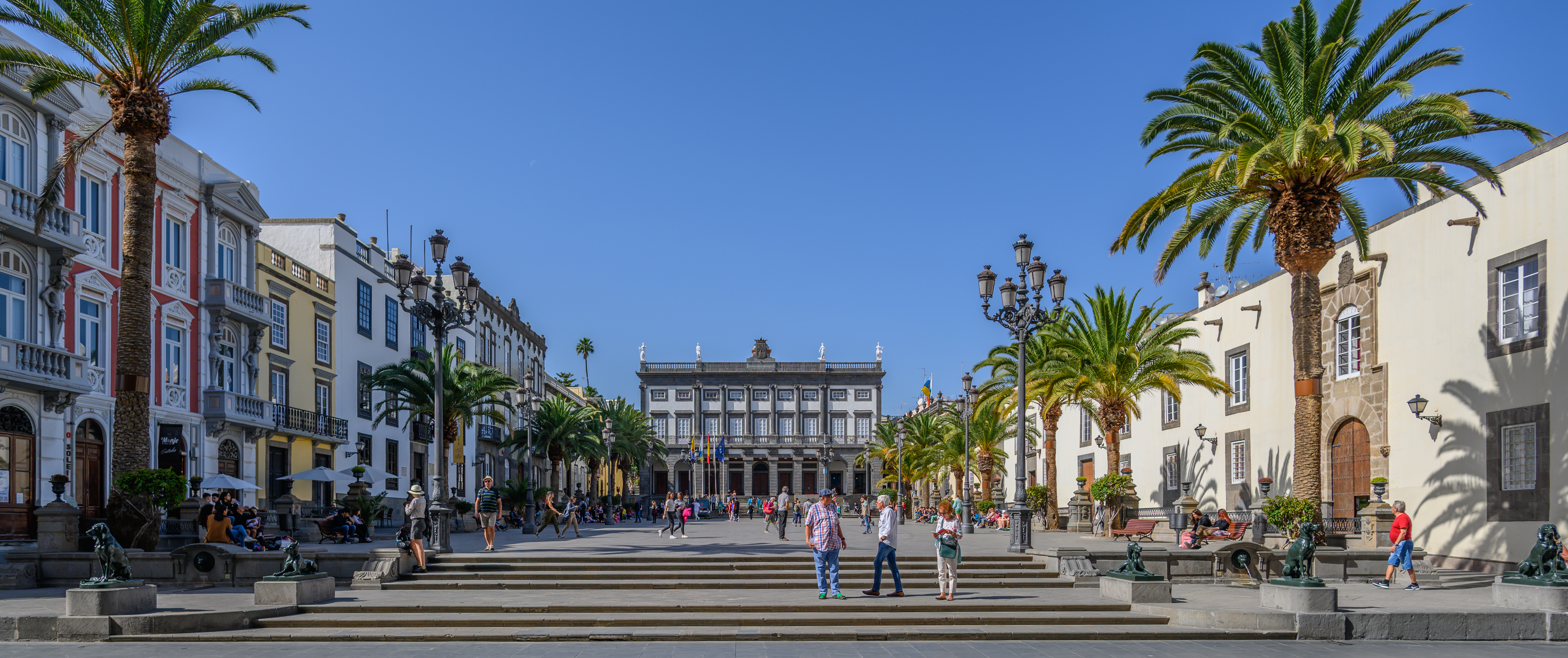 Old Town Las Palmas, Gran Canaria, February 2019